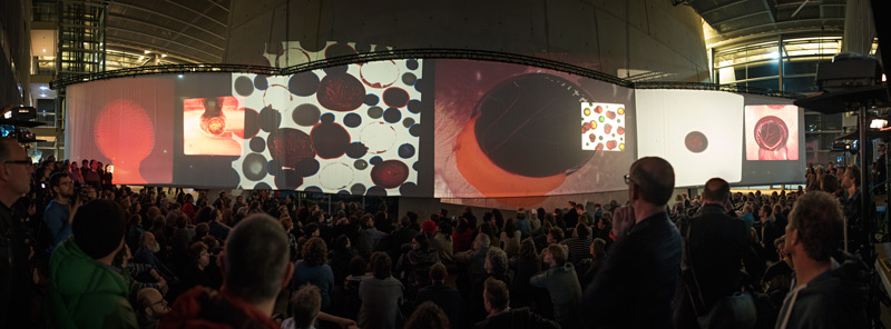 Sonic Acts Festival 2015 at Muziekgebouw aan 't IJ